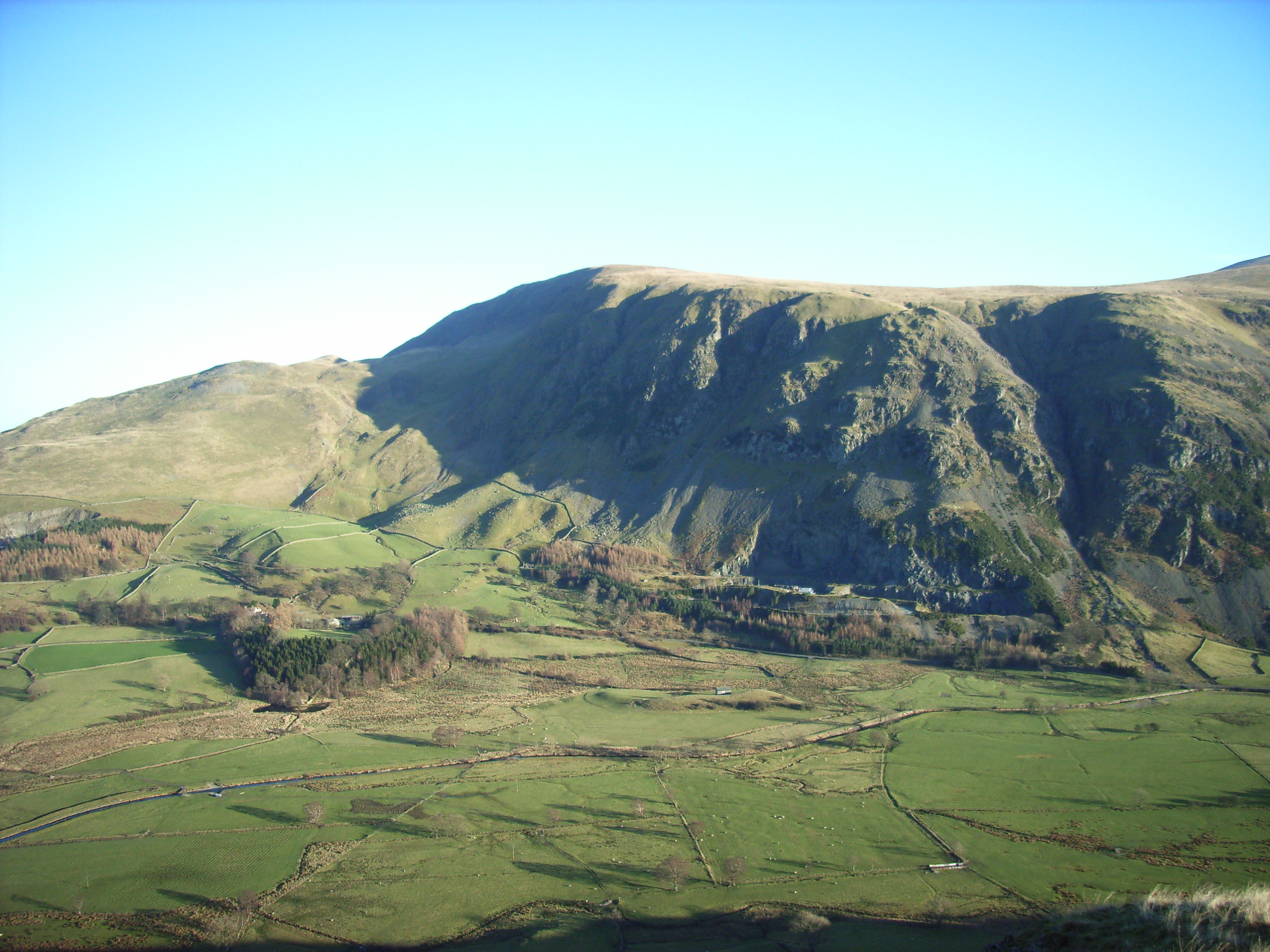 St. Johns in the Vale seen east from the summit of High Rigg.